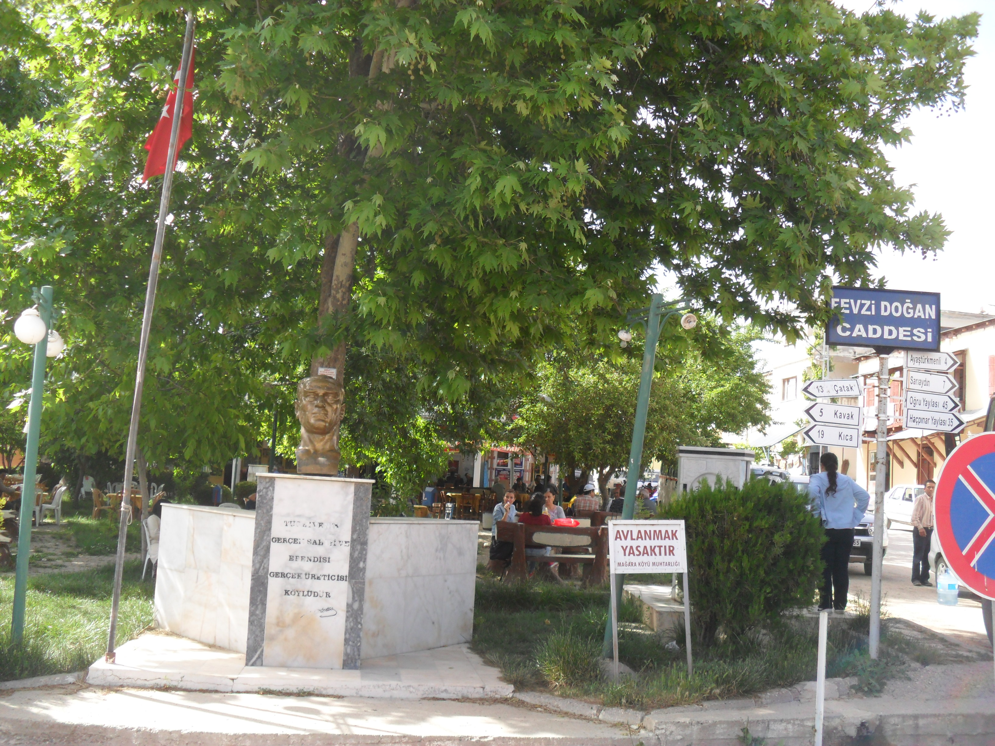 Town center in Kırobası, Silifke, Mersin Province, Turkey